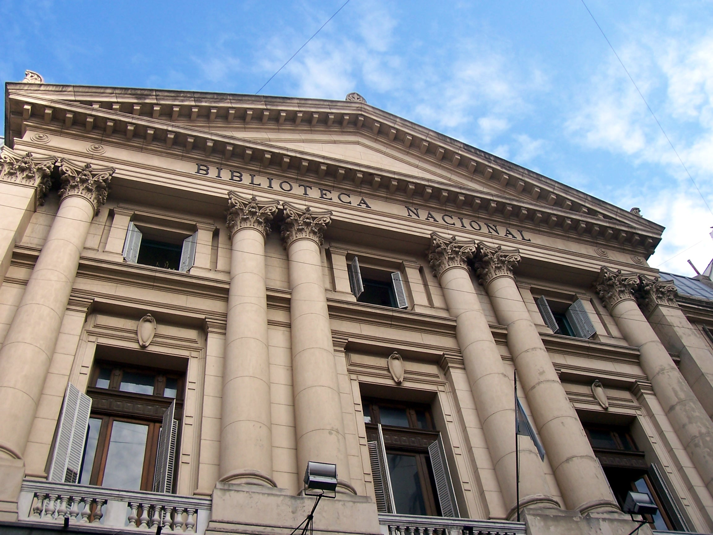 The former main building of the Argentine National Library, on 564 Mexico Street, in the San Telmo ward of Buenos Aires. Inaugurated as the headquarters of the National Lottery in 1893, the building served as the National Library between 1901 and 1992, currently serving as the institution's archive and periodicals library.